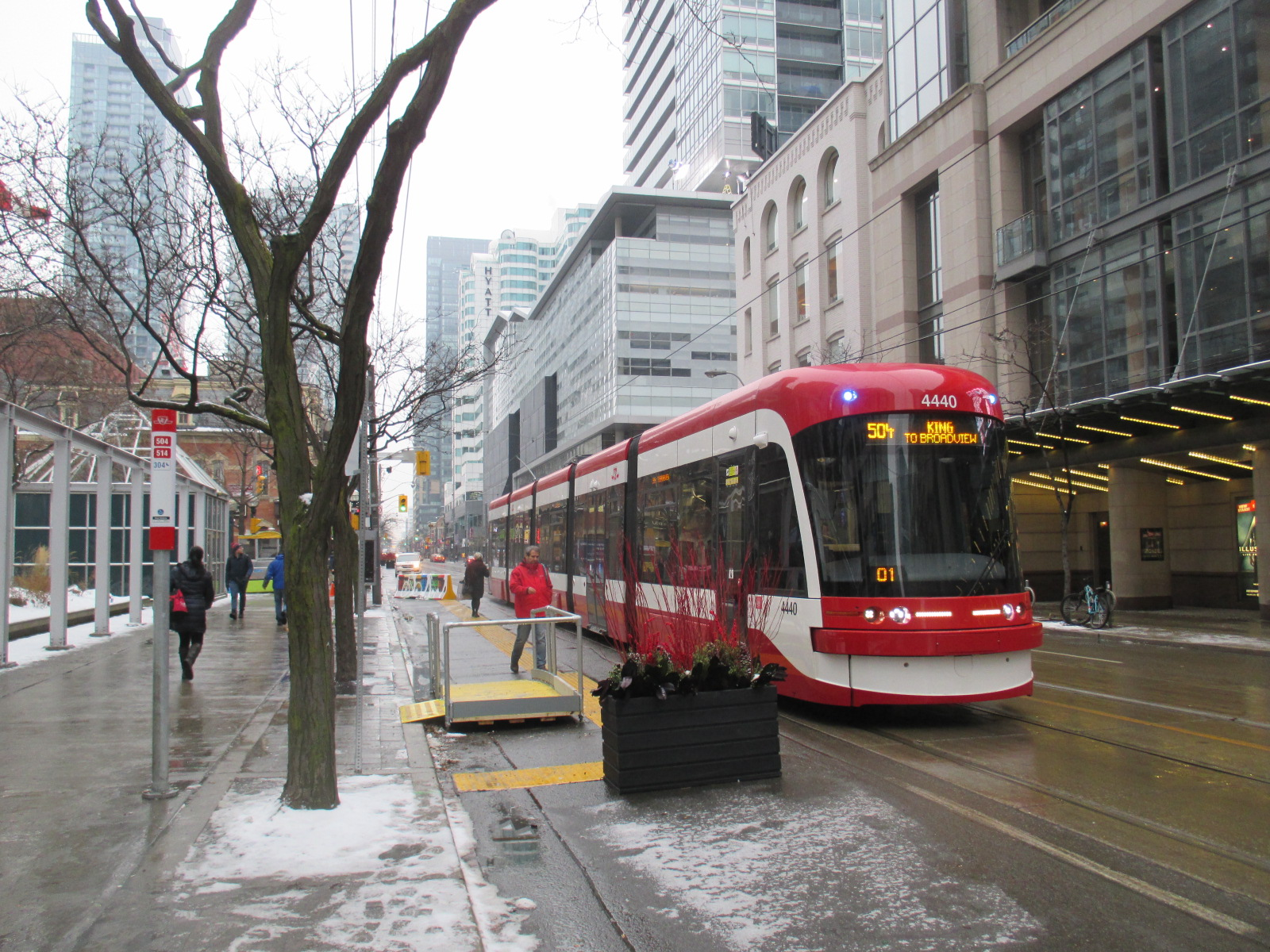 A far-side stop at John Street serving eastbound streetcars on routes 504 King and 514 Cherry; erected temporarily for the King Street Pilot Project